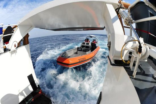 The USCGC Bernard C. Webber's stern launching ramp and jet-powered pursuit boat.